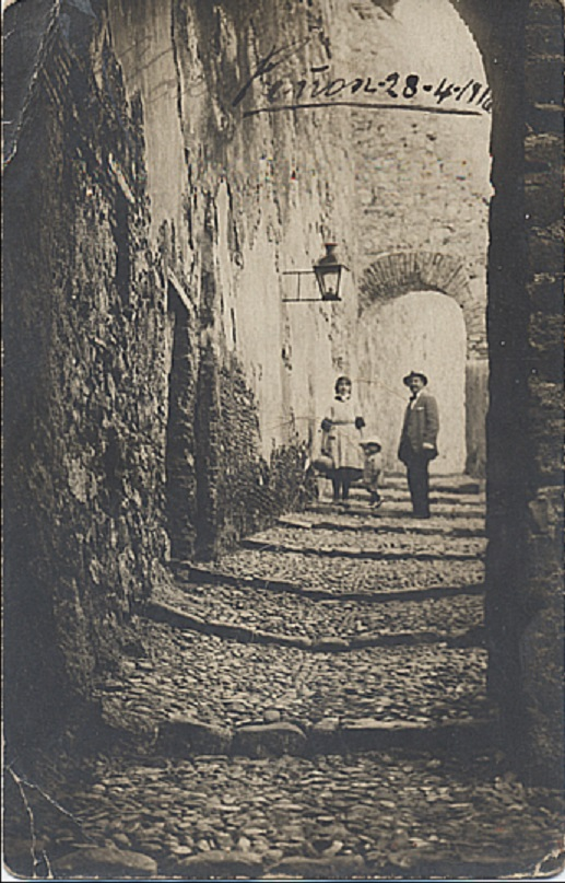 Photo-postcard from c. 1915 showing a Spanish family on a street of the Peñón de Alhucemas facing the Moroccan coat.